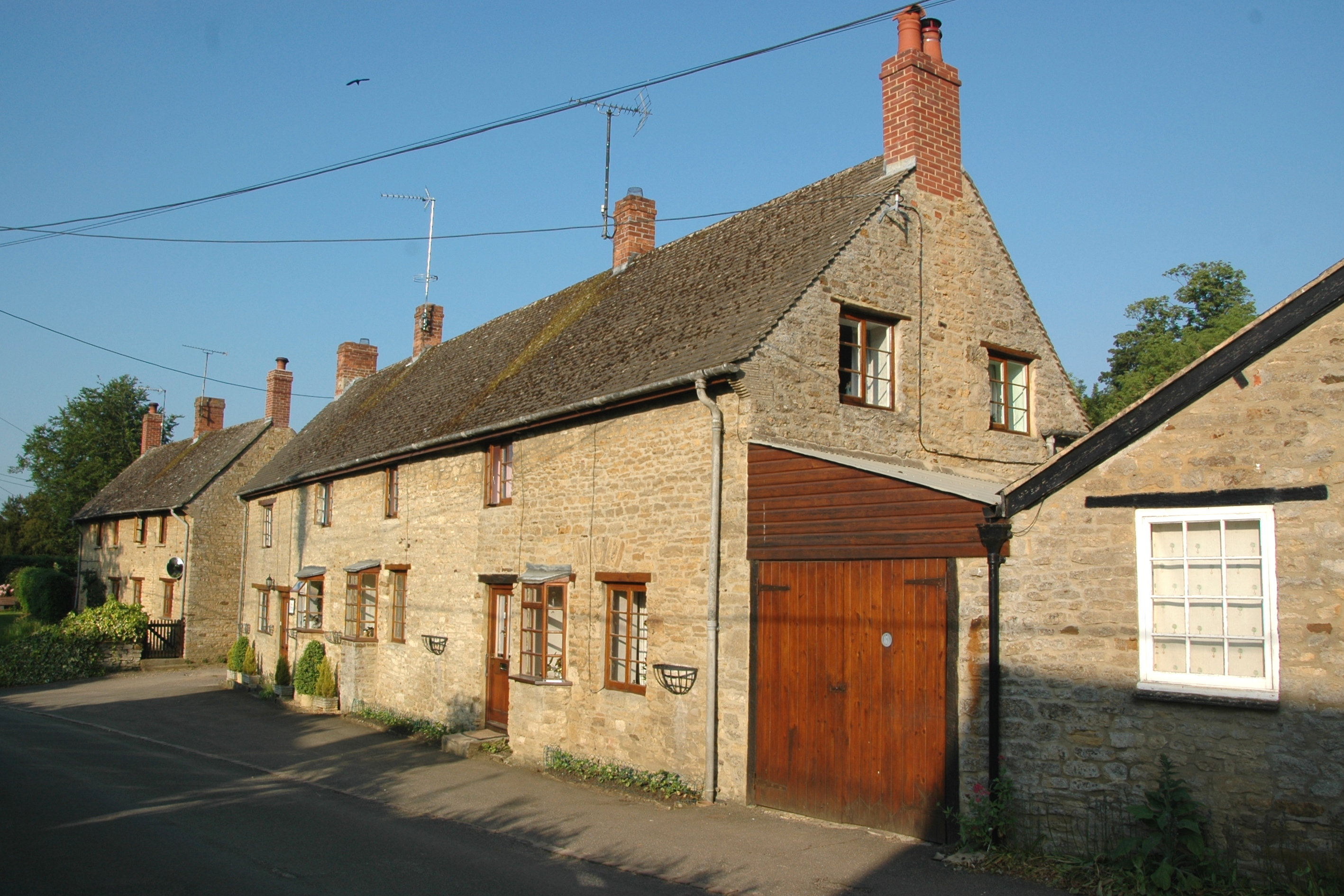 North Aston, Oxfordshire: cottages in Somerton Road